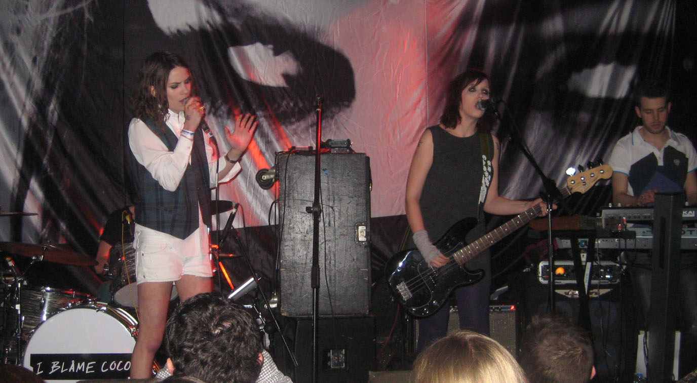 I Blame Coco - Hoxton 17th Feb 2010